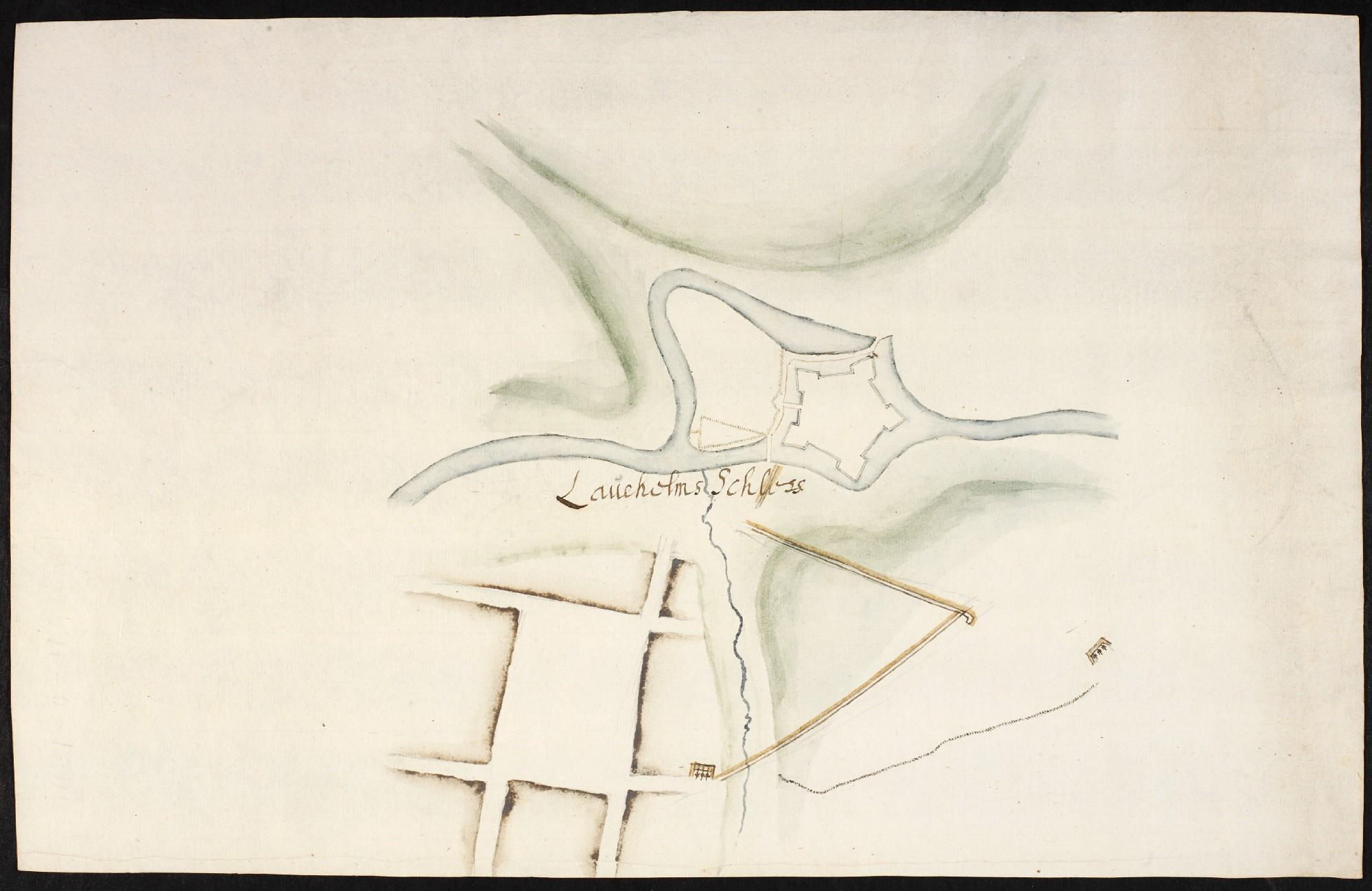 Lalleholm (Laholm?) Castle, Scania. Danish Royal Library.